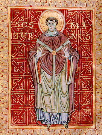 Maternus von Köln. Image from Egbert Psalter (Gertrude Psalter). Now in the Museo Archeologico Nazionale of Cividale, Italy.